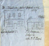 The first office of Thomas Joynt in Lichfield Street (the building on the right); later this became His Lordship's Hotel. According to the source, the caption reads: "Slater. J.S. Duncan sol: after T.J. Joynt" I suspect that it says "T.S. Duncan", though, as that would be the solicitor Thomas Smith Duncan.